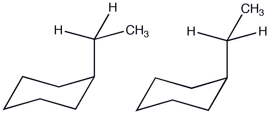 The possible axial conformations of ethyl cyclohexane.